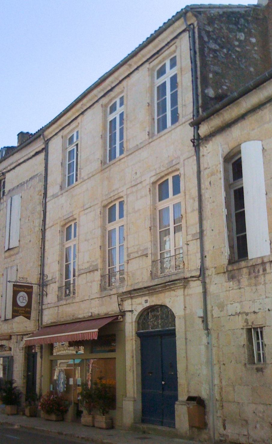 41 Rue Nationale, Lectoure, 32700 Gers is a historic monuments according to the French Ministry of Culture. .